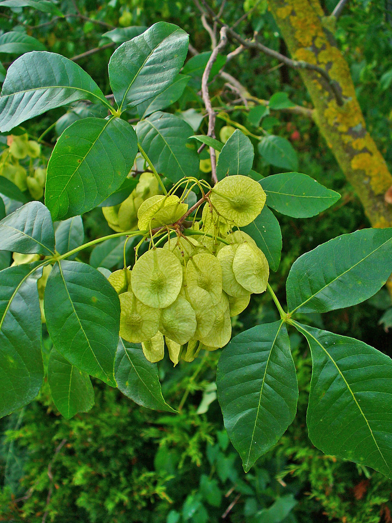 Ptelea trifoliata, Rutaceae, Hoptree, Wafer Ash, leaves and fruits.